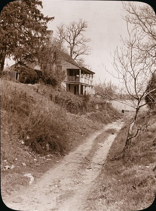 Title [Port Royal house, Port Royal, Caroline County, Virginia] Summary Photo shows dirt road leading to river; on left, house with stone 1st floor and wood 2nd floor. Contributor Names Johnston, Frances Benjamin, 1864-1952, photographer Created / Published [between 1927 and 1929] Subject Headings - Houses--Virginia--Caroline County--1920-1930 - Roads--Virginia--Caroline County--1920-1930 - Porches & paths--Virginia--Caroline County--1920-1930 Format Headings Lantern slides--1920-1930. Notes - On slide (handwritten): "Port Royal, Caroline." - Slide for lecturing on "Tales Old Houses Tell." - Title and date based on same image in the Carnegie Survey of the Architecture of the South, LC-J7-VA-3039, with additional information from Sam Watters, 2011. - Forms part of: Garden and historic house lecture series in the Frances Benjamin Johnston Collection (Library of Congress). - Formerly in Box 28. Medium 1 photograph : glass lantern slide, sepia-toned ; 3.25 x 4 in. Call Number/Physical Location LC-J717-X106- 25 [P&P] Repository Library of Congress Prints and Photographs Division Washington, D.C. 20540 USA Digital Id ppmsca 16595 //hdl.loc.gov/loc.pnp/ppmsca.16595 Library of Congress Control Number 2008675895 Reproduction Number LC-DIG-ppmsca-16595 (digital file from original item) Rights Advisory No known restrictions on publication. Online Format image Description 1 photograph : glass lantern slide, sepia-toned ; 3.25 x 4 in. | Photo shows dirt road leading to river; on left, house with stone 1st floor and wood 2nd floor. LCCN Permalink